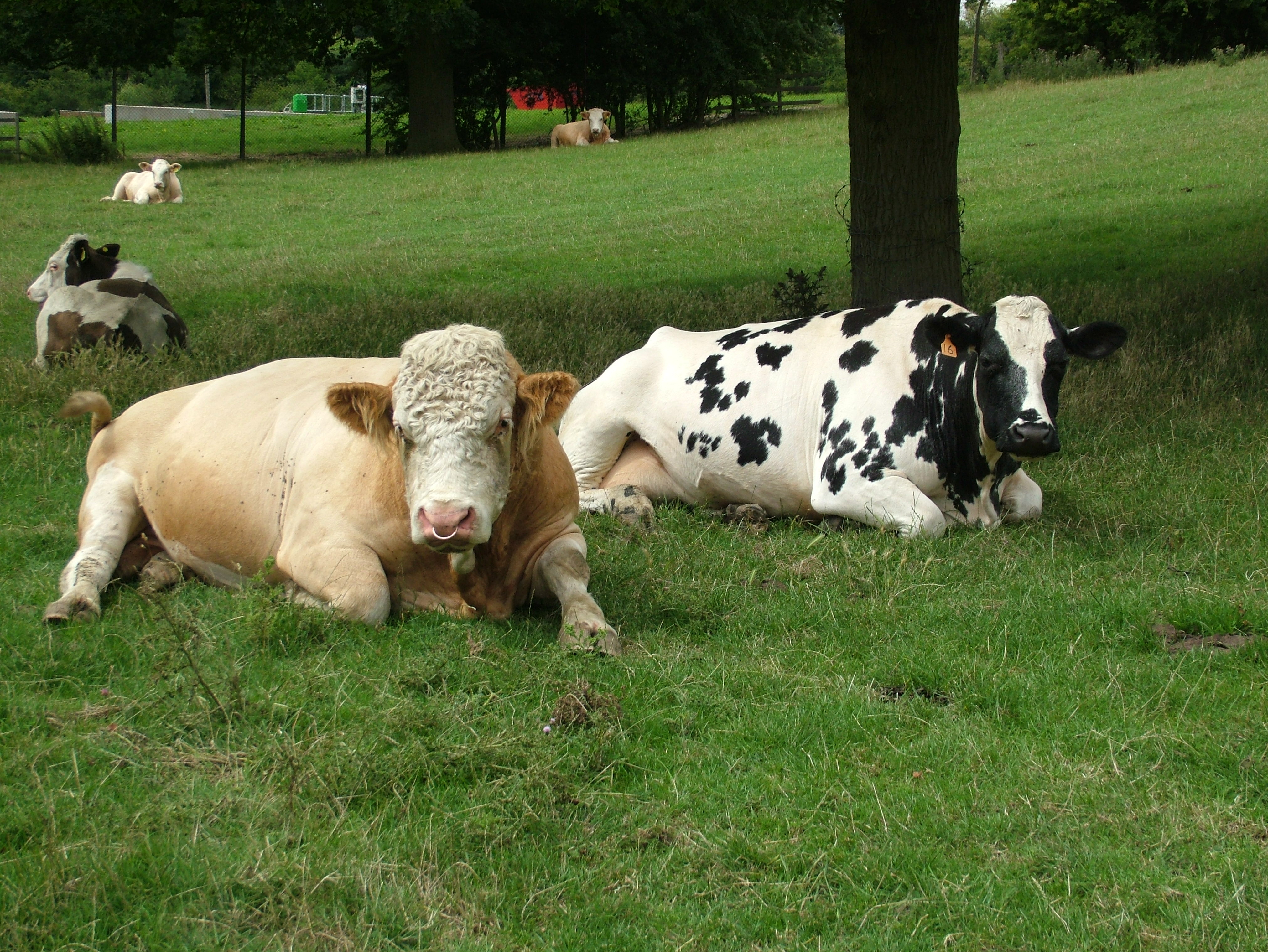 Simmental Bull Author James Thompson